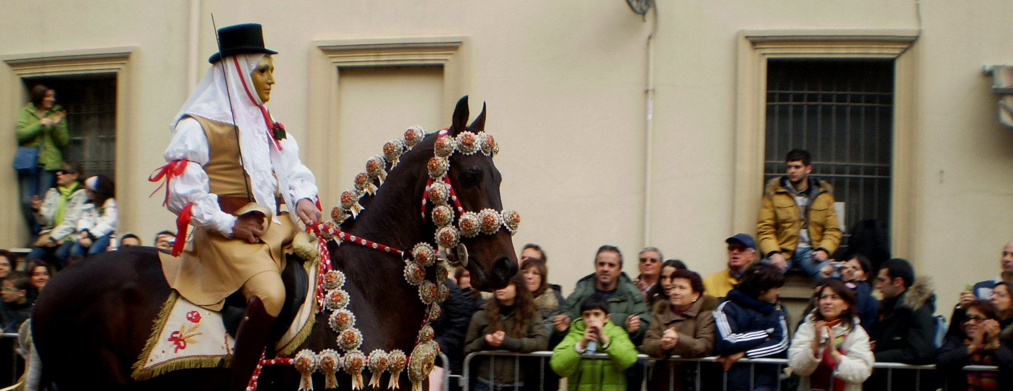 Ride of Su Componidori at the 543rd Sartiglia of Oristano, Sardinia, Italy.